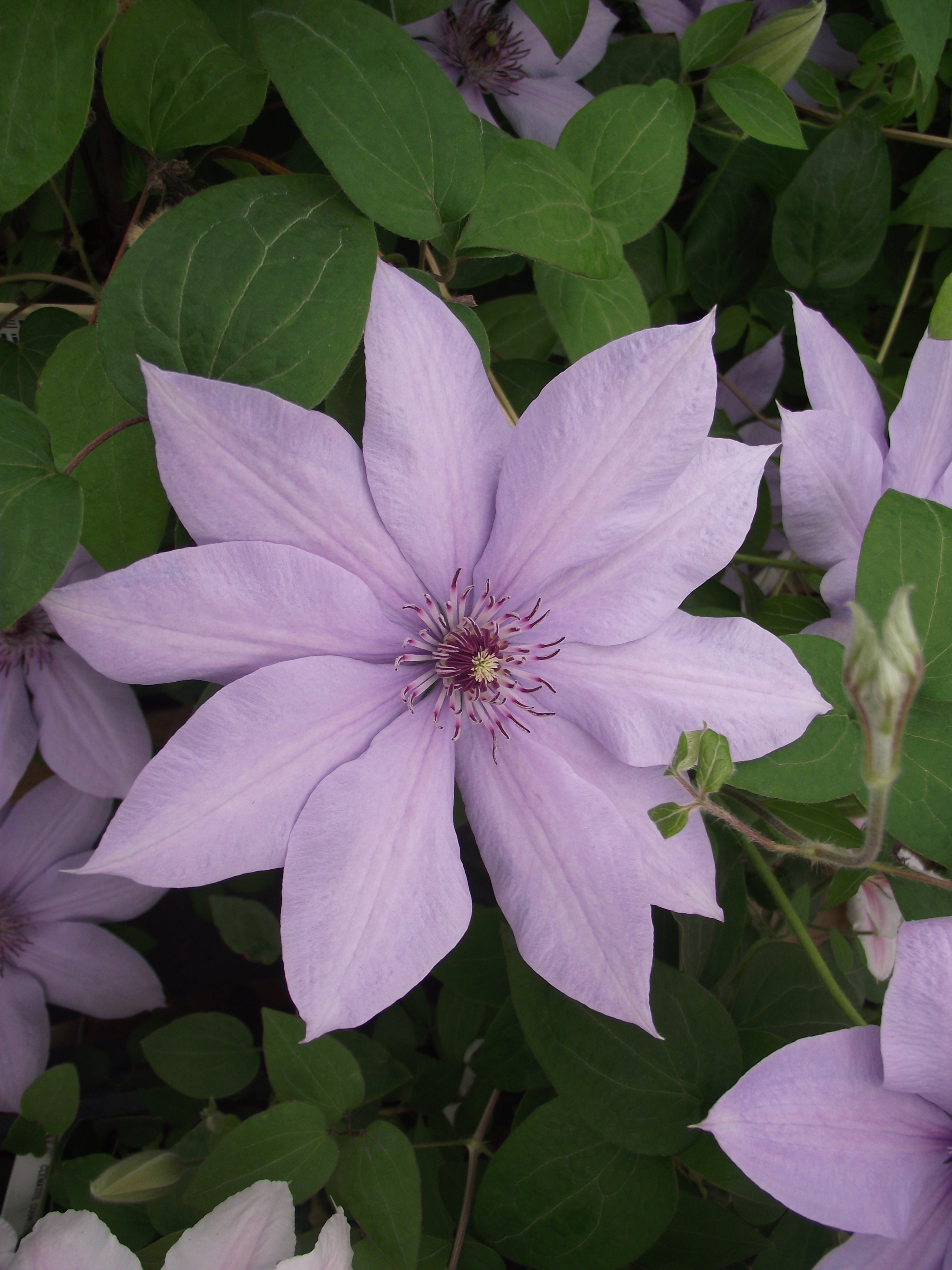 Clematis patens Bernardine 'Evipo061'